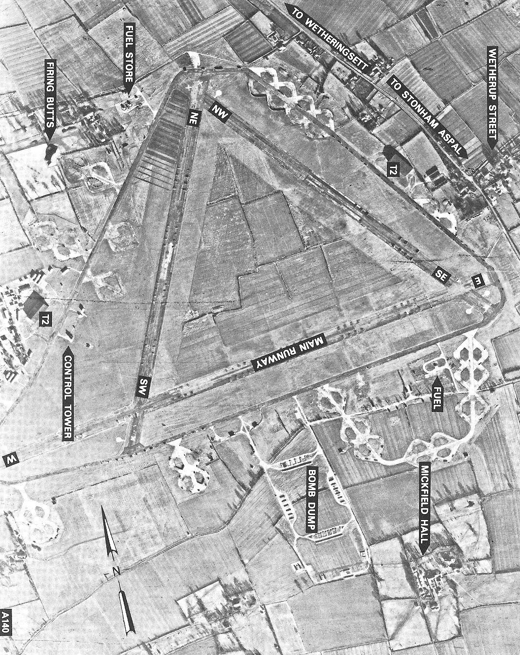 Aerial photograph of Mendlesham Airfield, England.